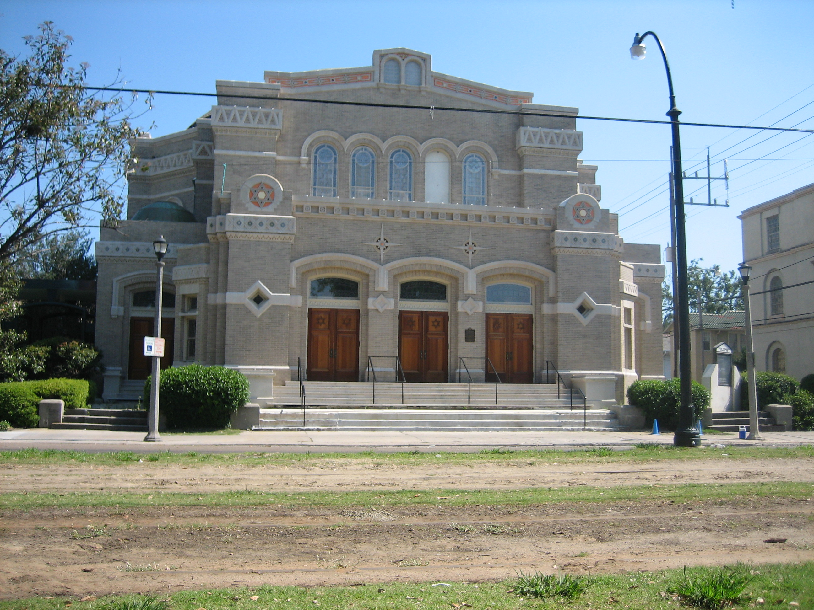 Touro Synagogue Temple, St. Charles Avenue, New Orleans